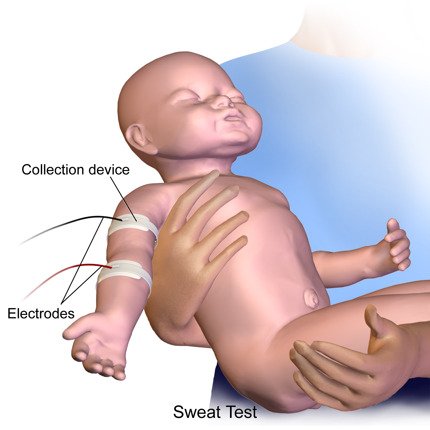 A medical illustration depicting a chloride sweat test on an infant.